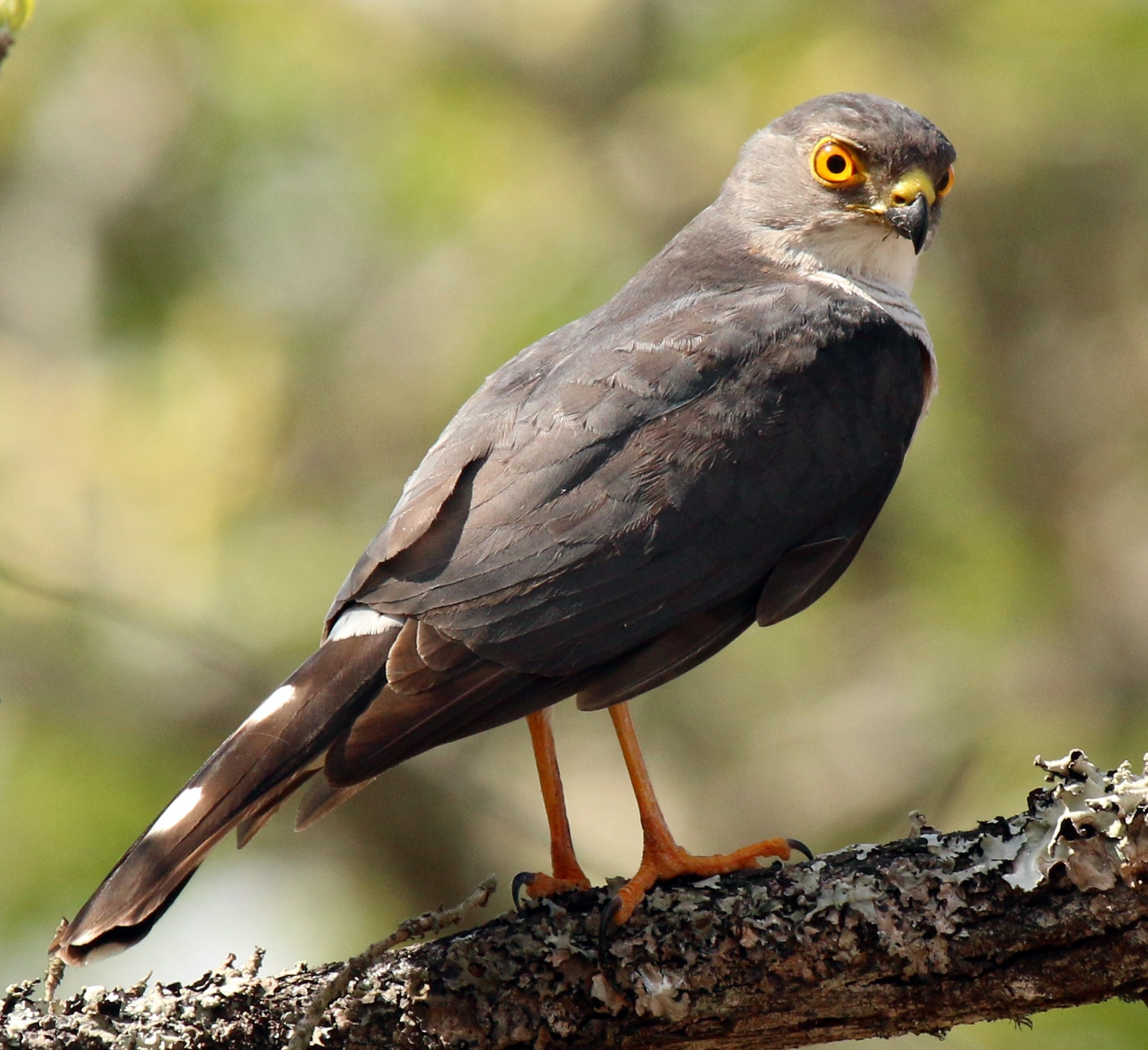 Little sparrowhawk (Accipiter minullus), Phinda Private Game Reserve, KwaZulu-Natal, South Africa